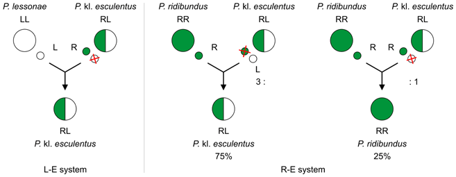 Hybridogenesis in water frogs, LE and RE systems.